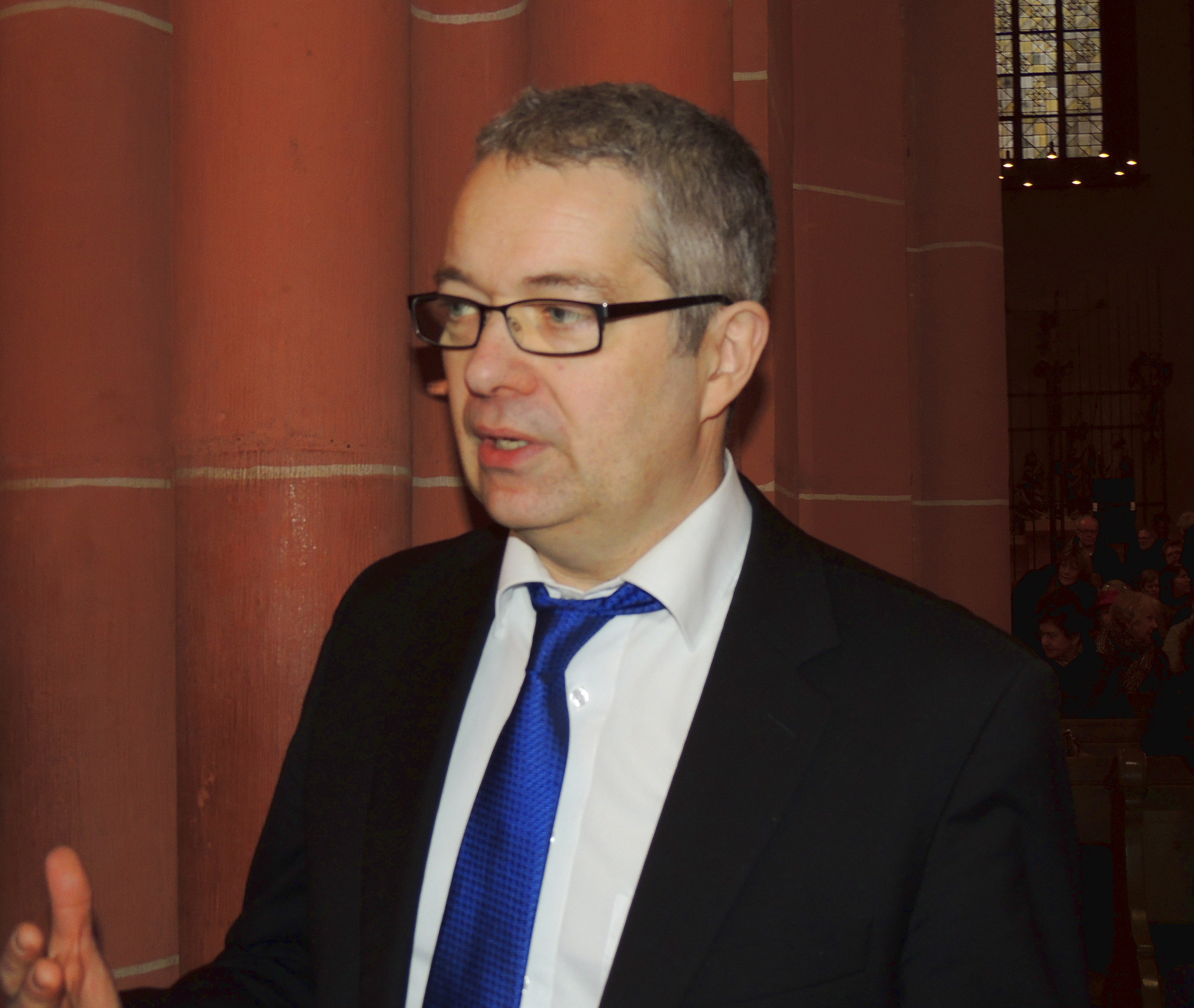 Peter Reulein, church musician and composer in the Frankfurt Cathedral at the performance of the oratorio Laudato si' at 29 January 2017